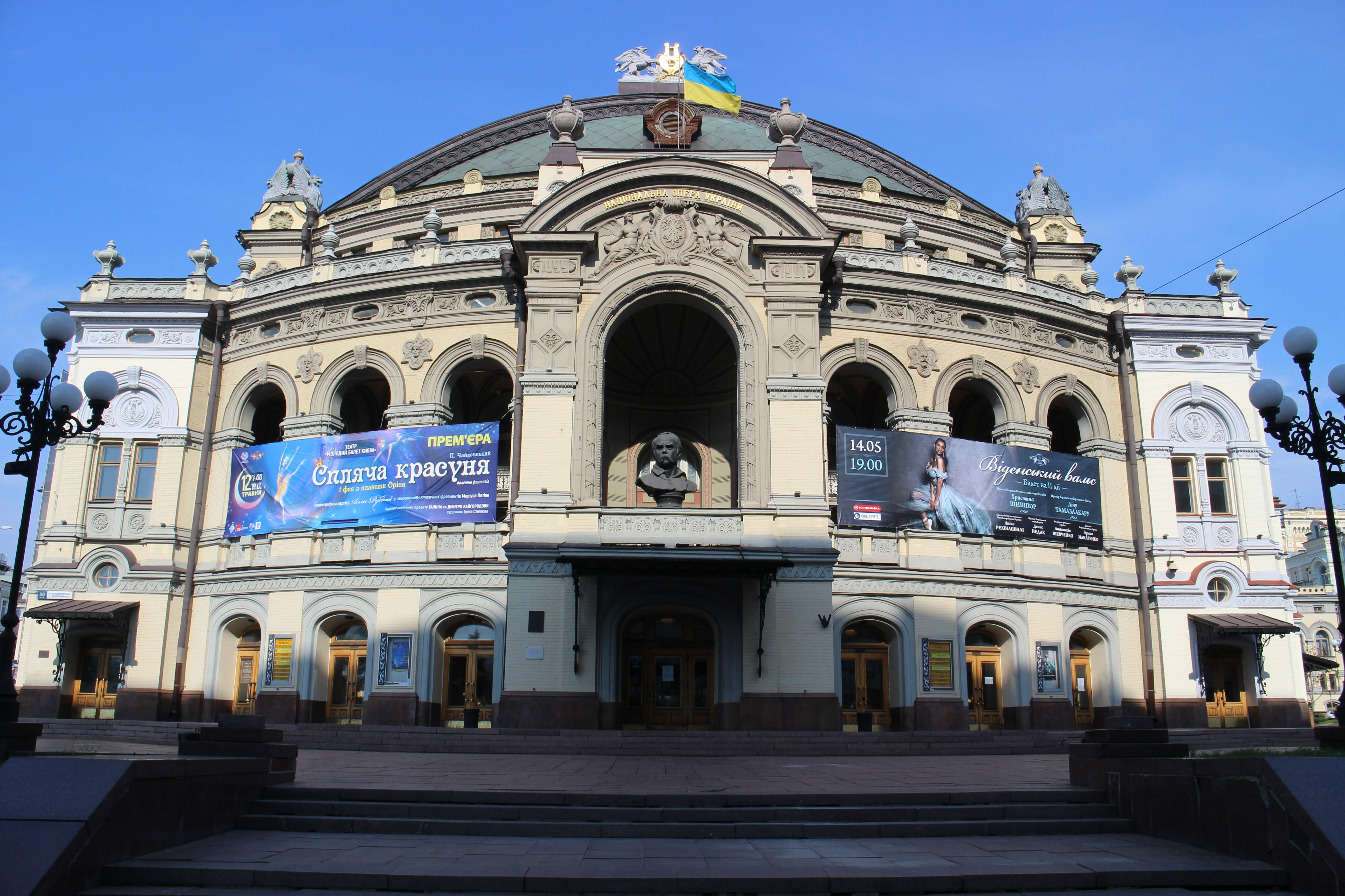 Kiev Opera House